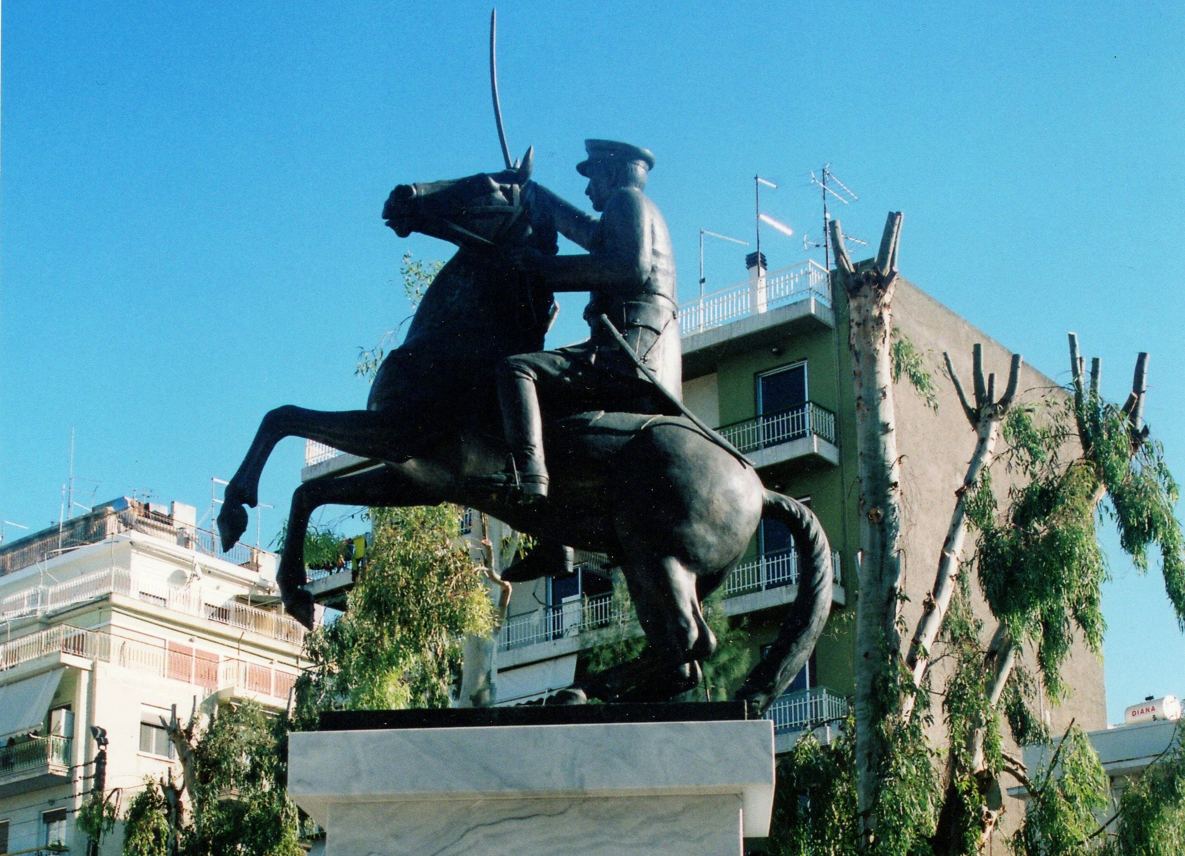 Chalkida_colonel_mordechay_Frizis_memorial. Credit: Courtesy of Arie Darzi to memorialize the Jewish community in Greece.